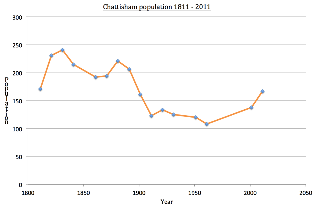 Chattisham's population trend from 1811-2011